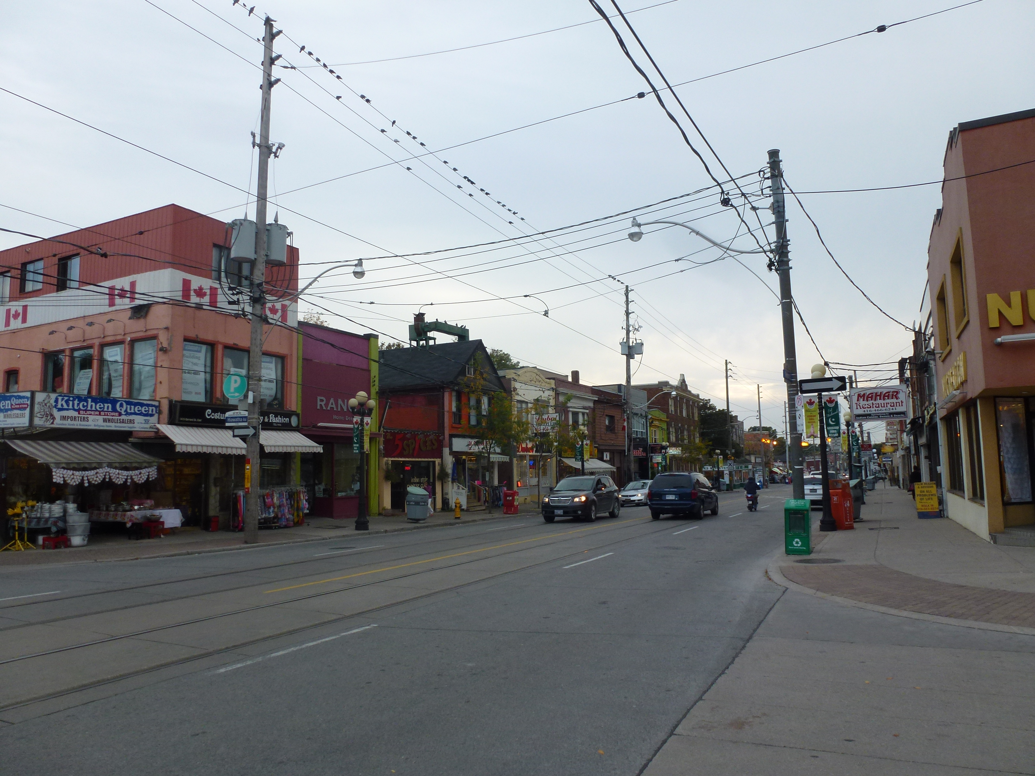 Greenwood - Coxwell, Toronto, ON, Canada